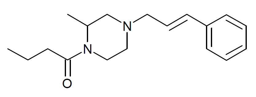 Structure of 2-Methyl-AP-237